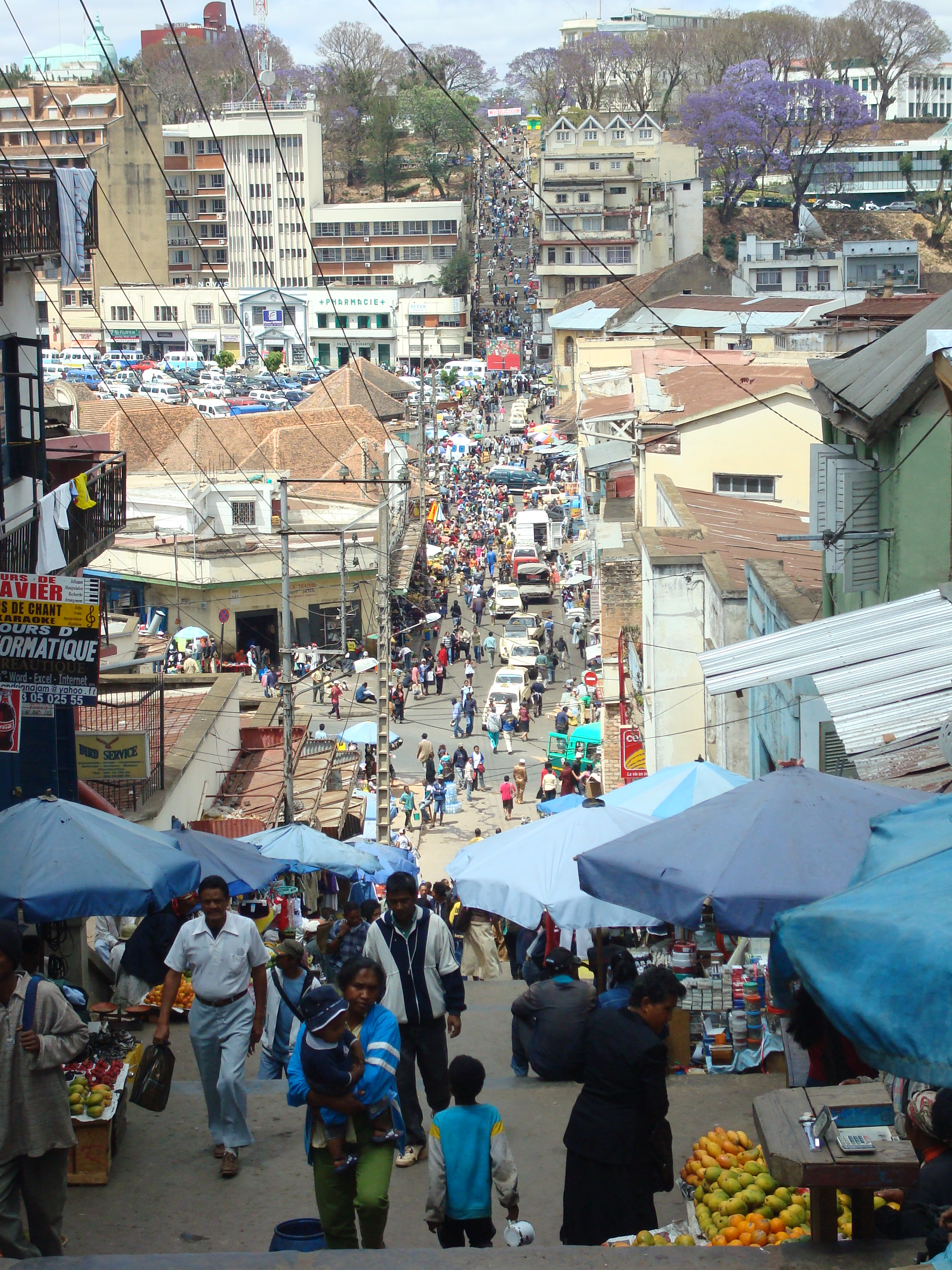 A busy market street in Antananarivo. Taken by Tom Turner, Antananrivo, October 2007.